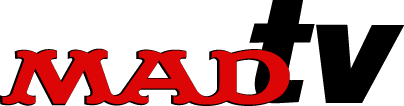 The logo of the American television show, MADtv.